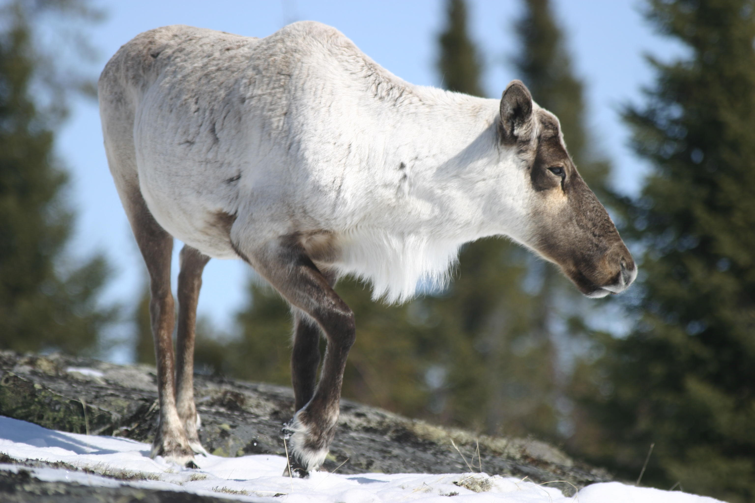 caribou in spring in the north of Quebec